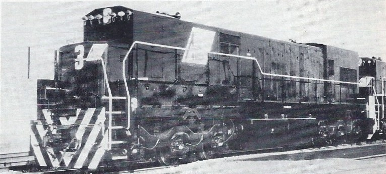 An Tai Bao 3, one of three former Conrail (nee Erie Lackawanna) U33C's after recently being rebuilt. These units were sold to Island Creek Coal and rebuilt at GE's Cleveland, Ohio apparatus shop from January to February 1987 for the An Tai Bao surface mine, a joint venture with the Chinese government These U-boats retain their low noses but the cab is removed in favor of remote control equipment while an 1800 hp Cummins engine replaces the original FDL, both features common to the mines existing dump truck fleet. These rebuilt units are reportedly the last U33C's in existence as of 2005.